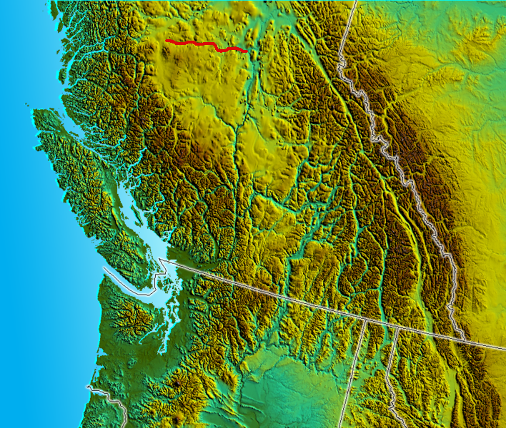 This image is based on South BC-NW USA-relief.png which is already in Wikimedia Commons. I trimmed it to the current frame and added the red line indicating the West Road River (eastward-flowing; the Fraser, which it joins at the eastern end, is not shown)